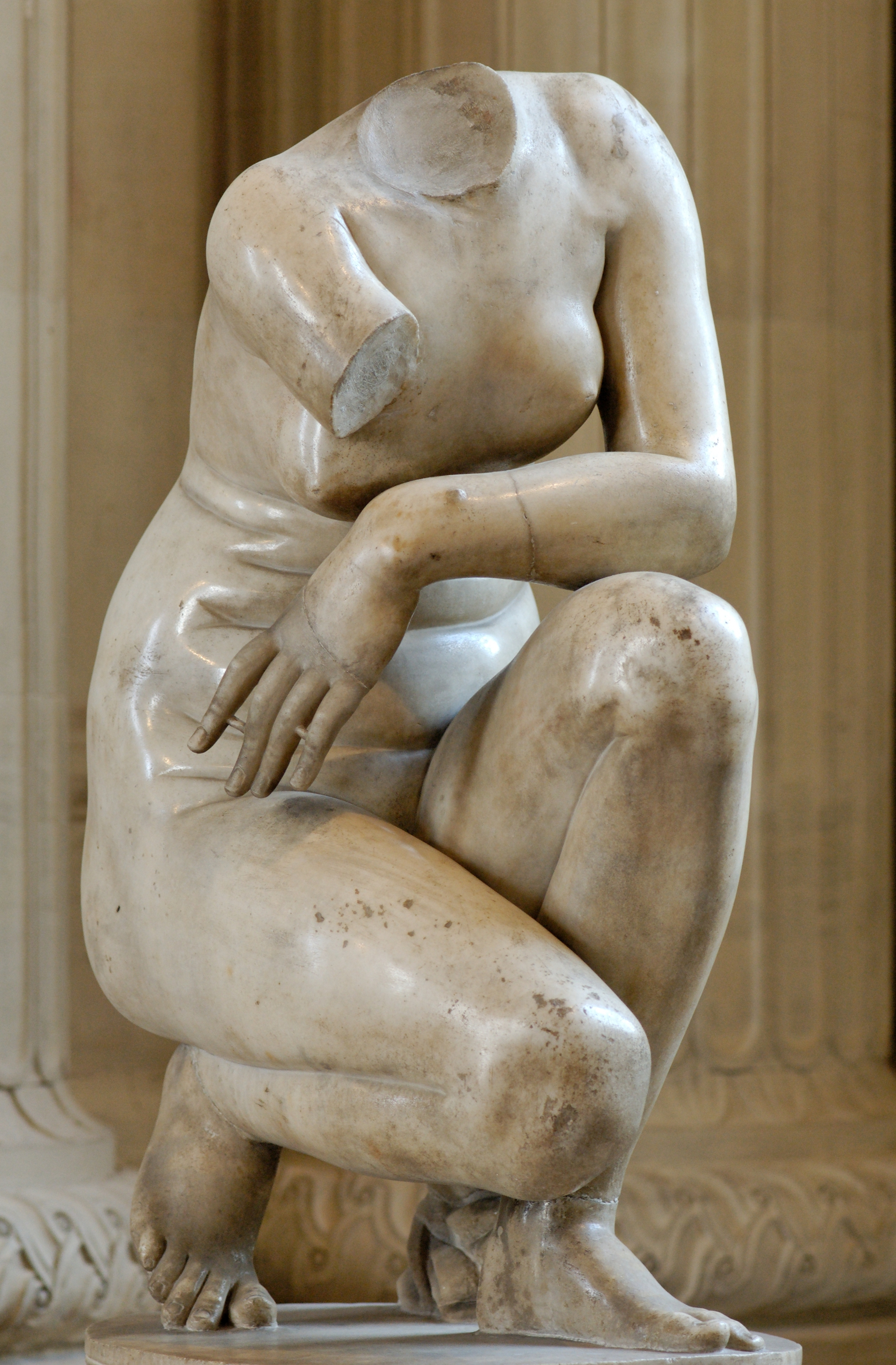 Crouching Aphrodite. Marble, Roman copy of the 2nd century CE after a Hellenistic original of the 3rd century BC, loosely derived from the Cnidian Aphrodite by Praxiteles.